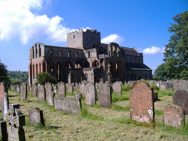 Lanercost Priory Lanercost priory from the graveyard. Impressive "army" of sizeable gravestones and interesting lack of any sentimentality - "Such-and-such" died on March 15 1907 also "So-and-so" died on July 25 1921. Usually no more than that unless also accompanied by a place name.